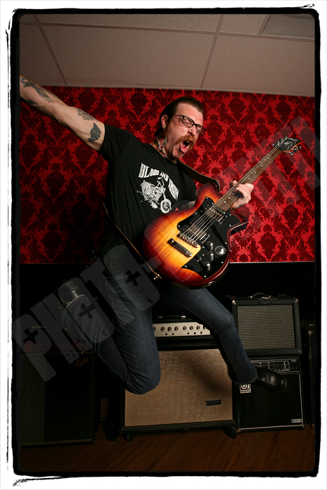 Jesse Hughes